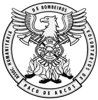 AHBVPA-Emblema05